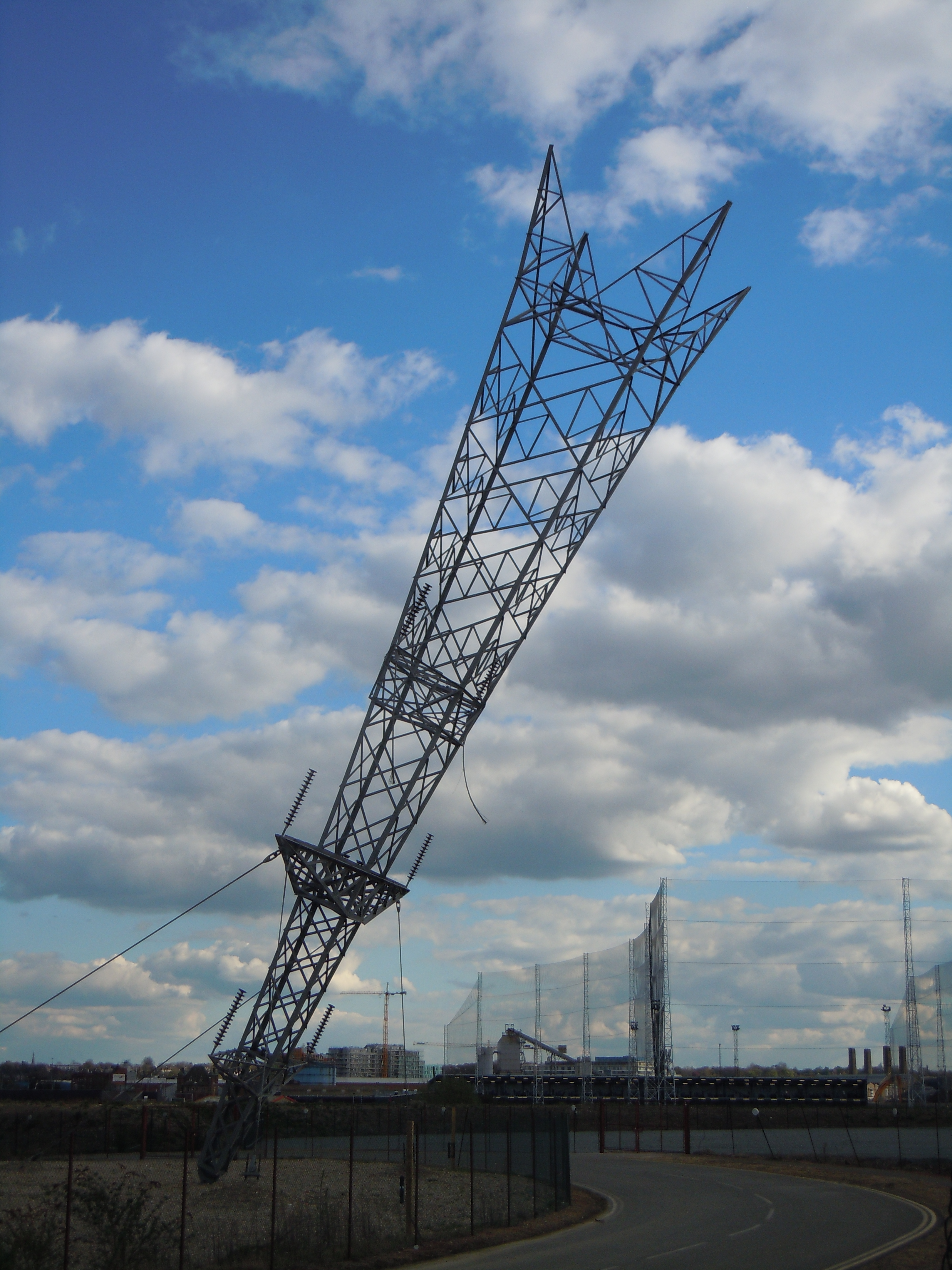 Upside down pylon on Greenwich Peninsula, "A bullet from a shooting star" by sculptor Alex Chinneck